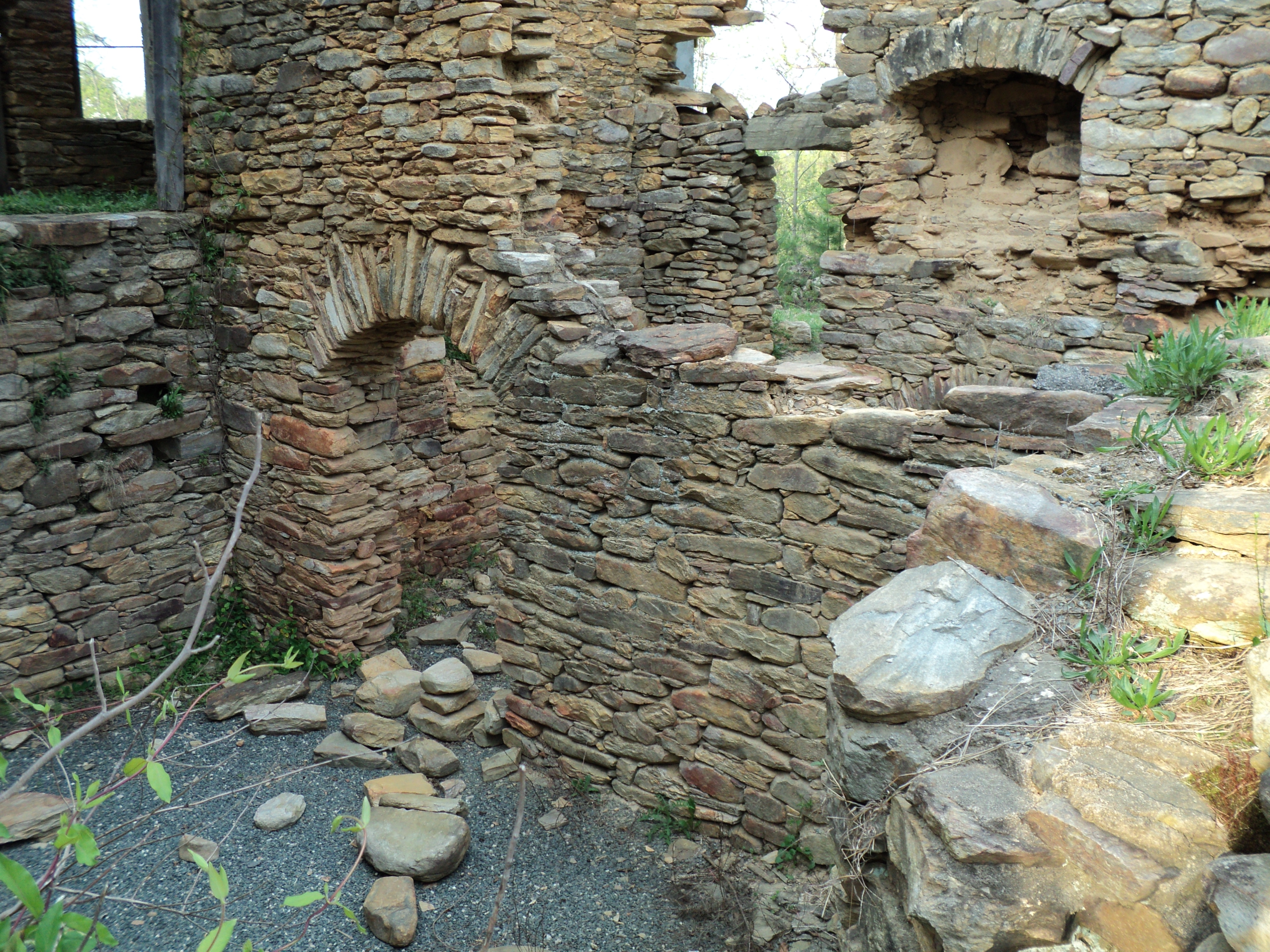 Detail of the interior, the Rock House, built by Capt. Jack Martin, pioneer and Revolutionary War soldier, near King, Stokes County, North Carolina. Today the house is a ruin and is owned by the Stokes County Historical Society. It is listed on the National Register of Historic Places.